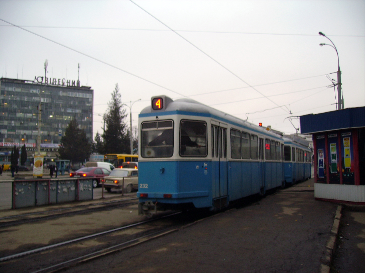 Tram in Vinnycya, Ukraine. This tram set, consisting of a four-axle powered tramcar and four-axle trailer, is a Swiss Standard type.